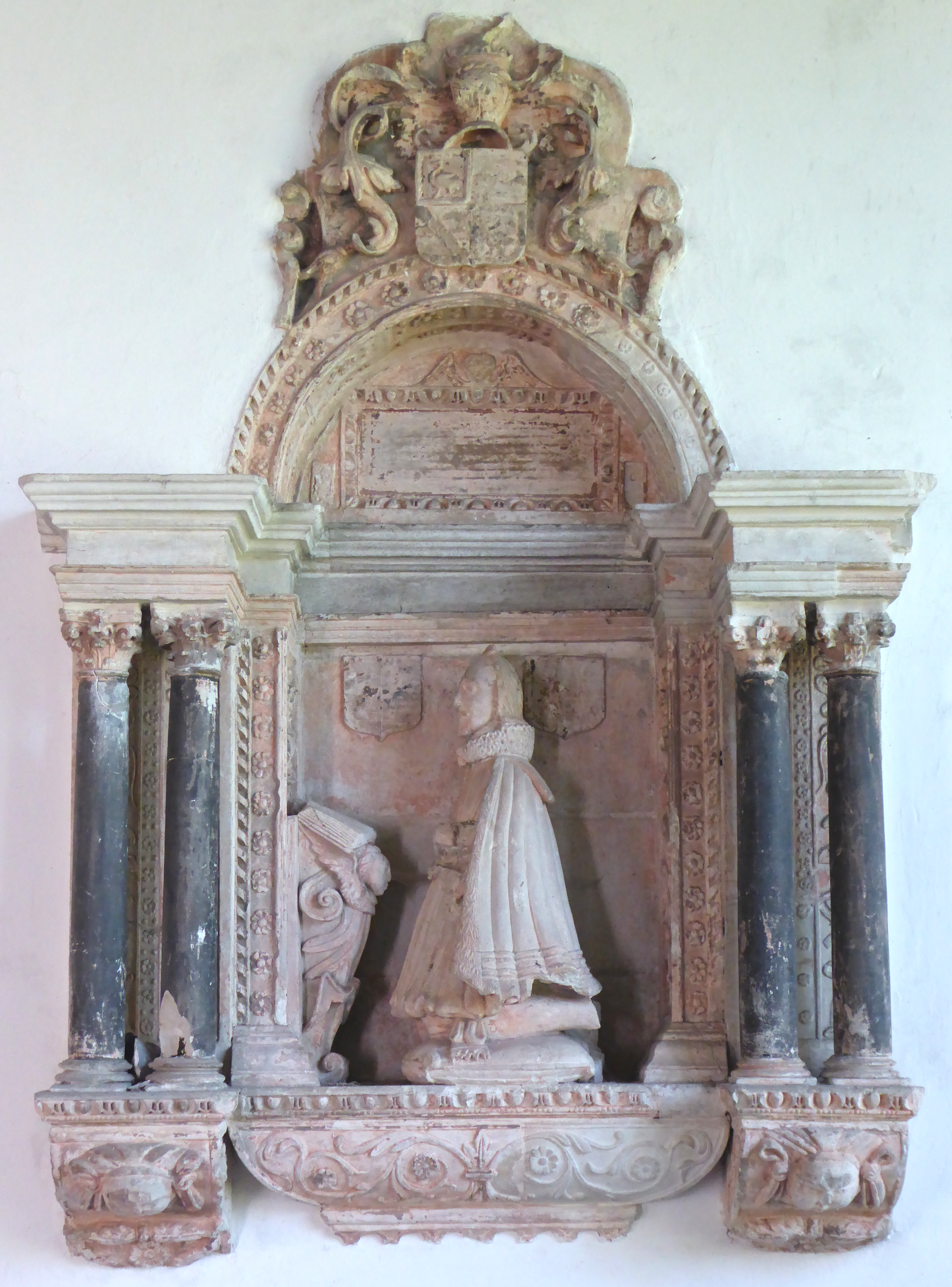 Mural monument north side of chancel Broadhembury Church, Devon, to Sir Edward More (c.1555–1623) of Odiham in Hampshire, a Member of Parliament. One of his two daughters and co-heiresses was Elizabeth More, who married Sir Thomas Drewe (d.1651) of The Grange in the parish of Broadhembury in Devon, Sheriff of Devon in 1612. Although the inscription is erased he can be identified by the top escutcheon which shows in the first of four quarters the arms of More: Sable, a swan argent a bordure engrailed or. The other two escutcheons lower down are totally blank/effaced. His will (transcript of will of Sir Edward More, dated 24 April 1623 (National Archives PROB 11/141/530)[1]) requested burial in the chancel of Odiham Church. It thus appears that this monument was erected by his daughter Elizabeth Drewe. Stabb, in his Some Old Devon Churches, wrote: "On the north wall of the chancel is a monument with the figure of a man kneeling at a desk, which is supported by an angel. He is arrayed in ruff, long robe over the shoulders, and full pantaloons; it is supposed to be in memory of Sir Thomas Drewe, but the inscription is indecipherable". The arms do not support this attribution as the well-known arms of Drewe (Ermine, a lion passant gules) are not shown in the first quarter.